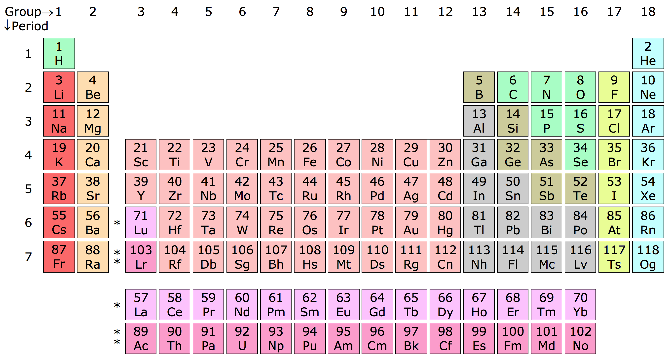 18 column periodic table, with Lu and Lr in group 3